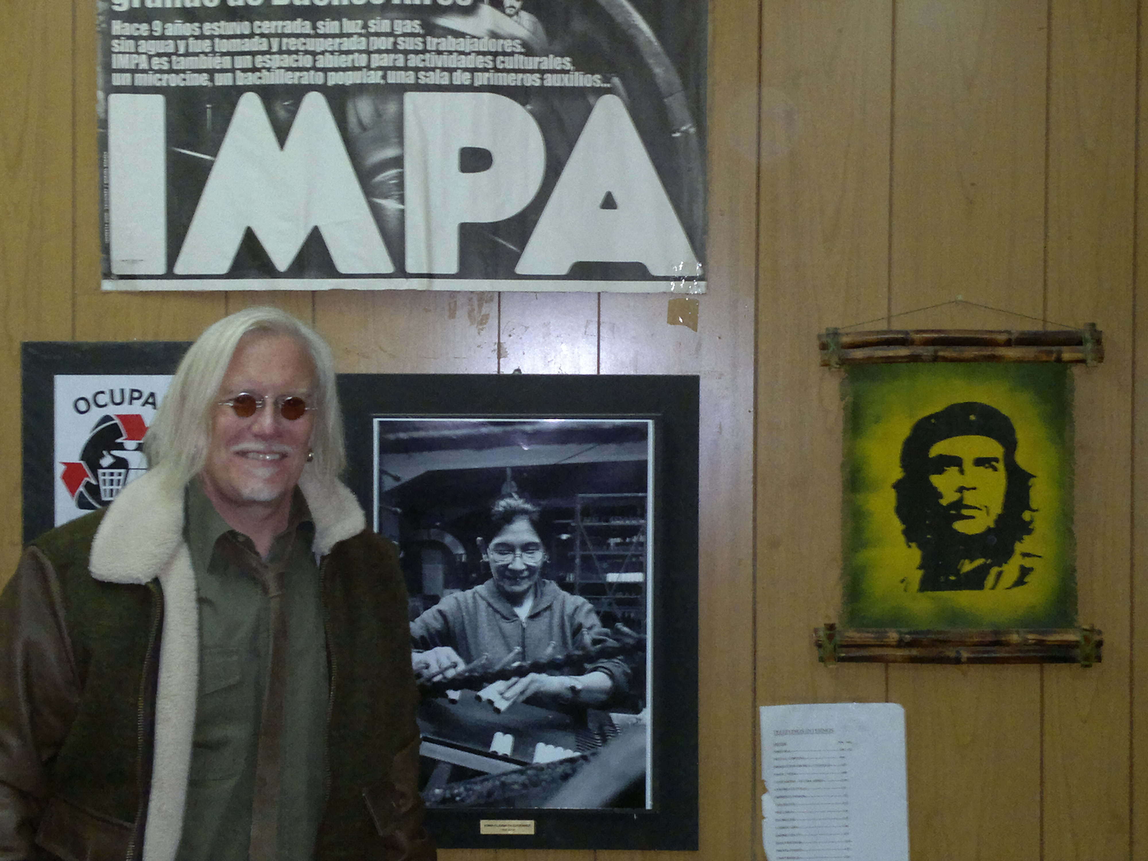 Peter McLaren visiting IMPA, Buenos Aires City, Argentina.